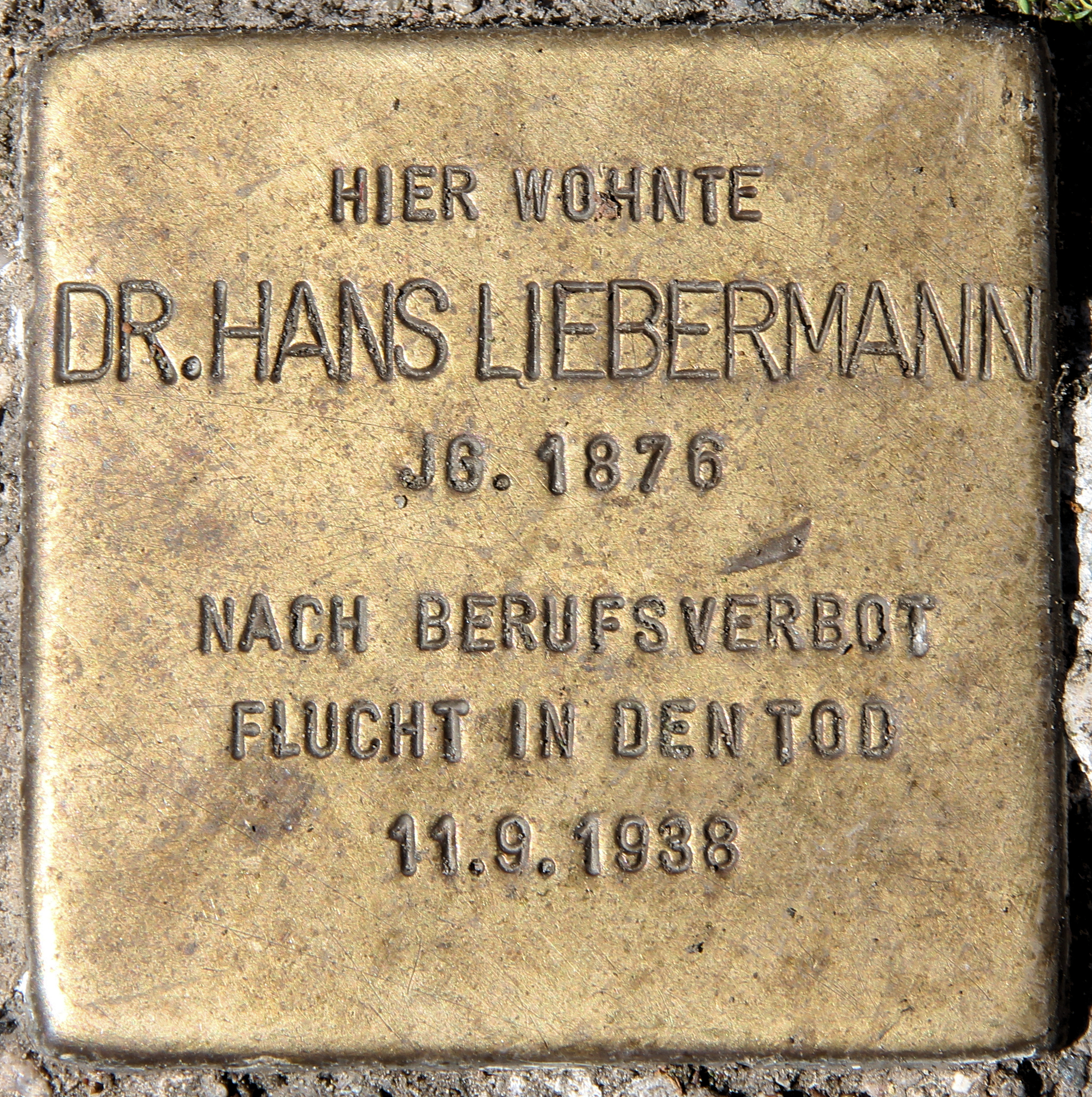 "Stolperstein" (stumbling block), Hans Liebermann, Binger Straße 25, Berlin-Wilmersdorf, Germany Koordinate:52°28′19″N 13°18′34″E / 52.47194°N 13.30944°E